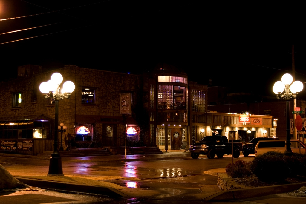 Eskimo Joe's